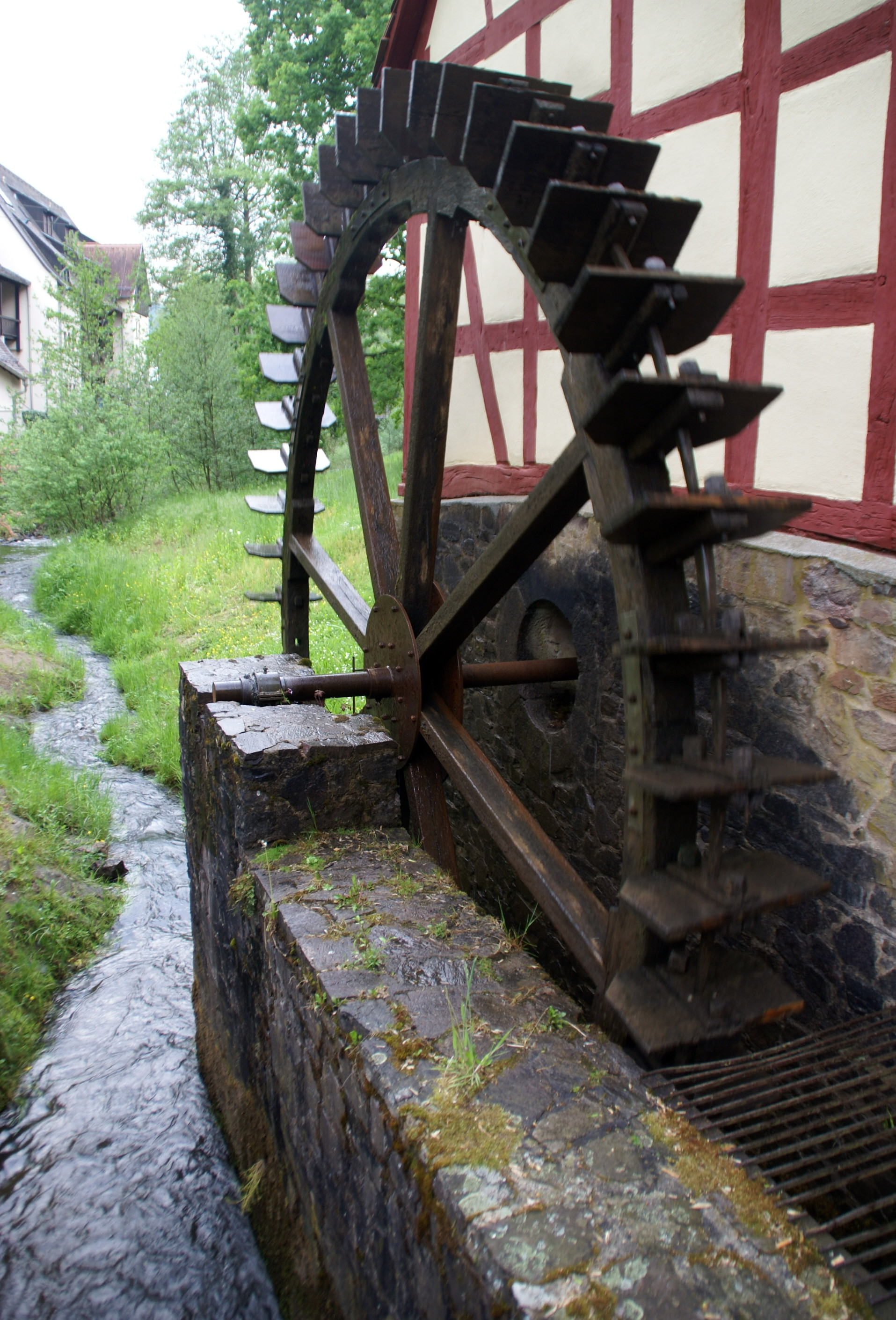 Former oil mill in Mömbris: water inlet from the river Kahl to drive the mill wheel